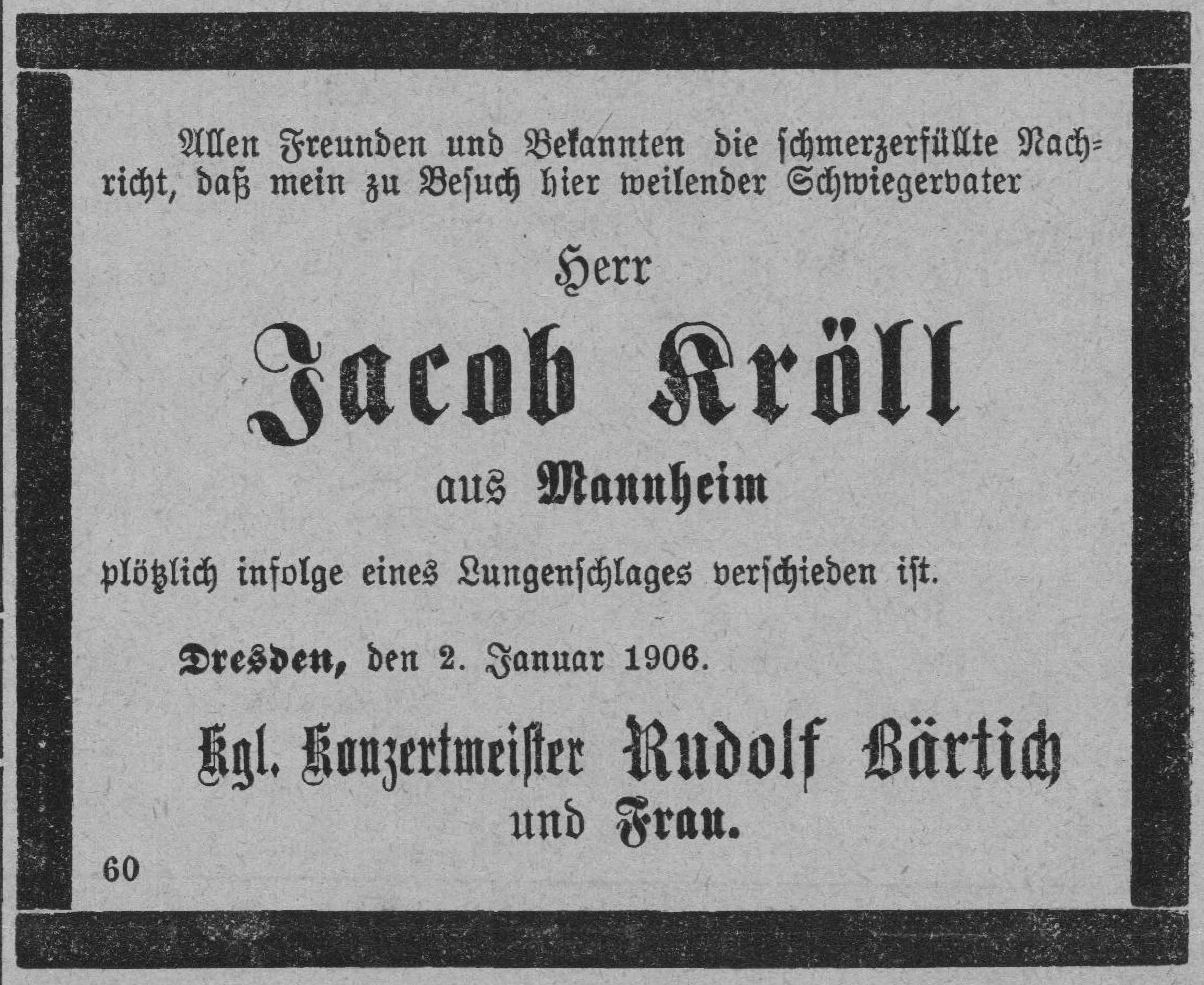 Scan from the Dresdner Journal, 1906